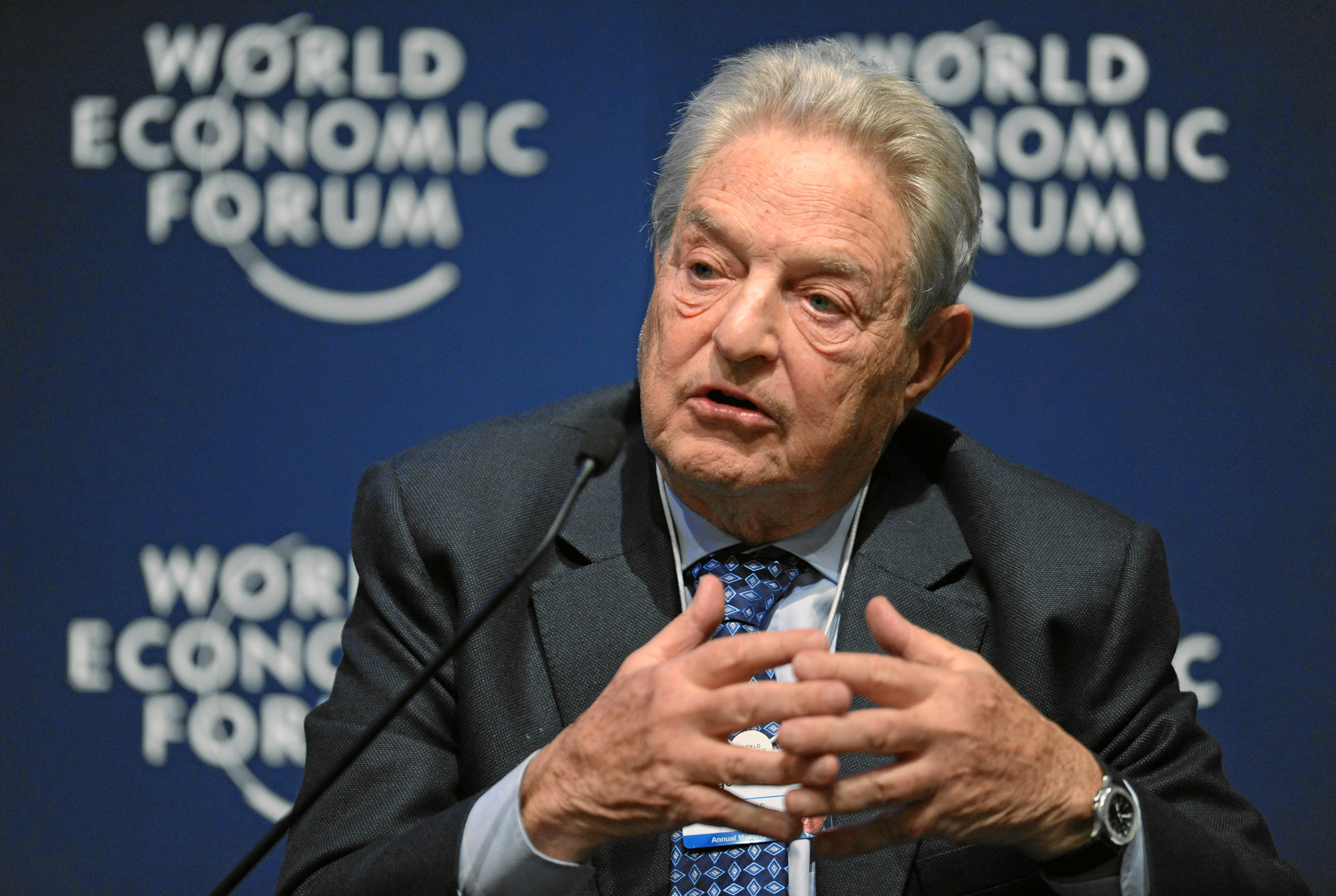 DAVOS/SWITZERLAND, 27JAN11 - George Soros, Chairman, Soros Fund Management, USA, is captured during the session 'Redesigning the International Monetary System: A Davos Debate' at the Annual Meeting 2011 of the World Economic Forum in Davos, Switzerland, January 27, 2011. Copyright by World Economic Forum by Michael Wuertenberg